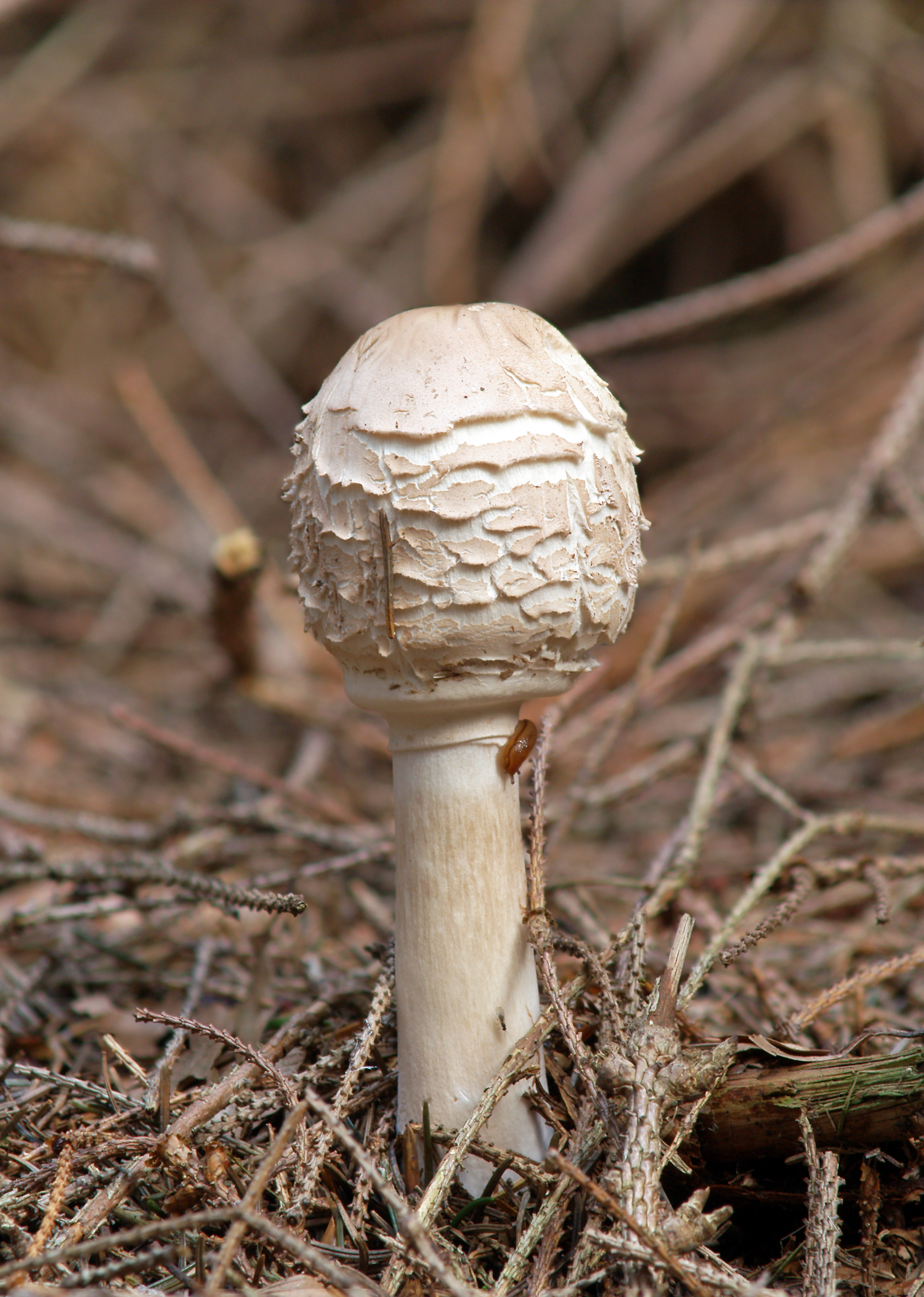 Shaggy parasol (Chlorophyllum rhacodes), Burkhardtsdorf, Germany